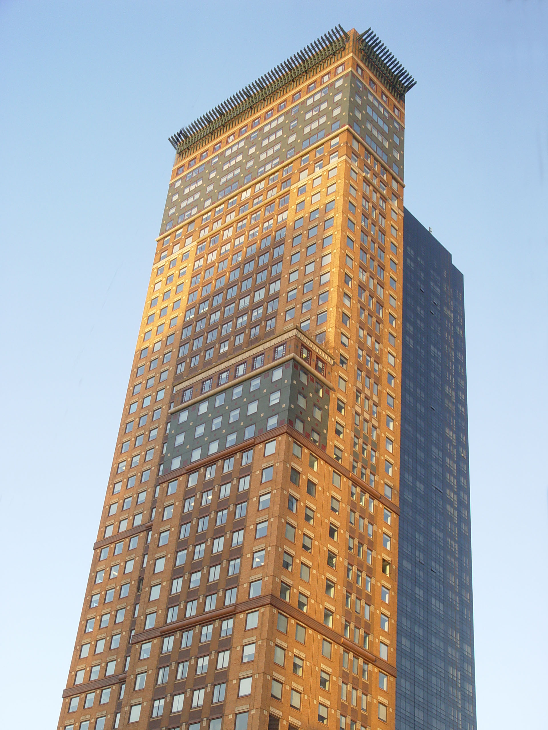 Looking east at Carnegie Hall Tower; Metropolitan Tower in background.